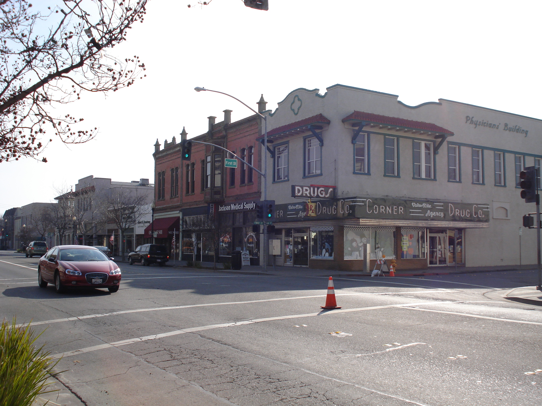 Downtown Woodland